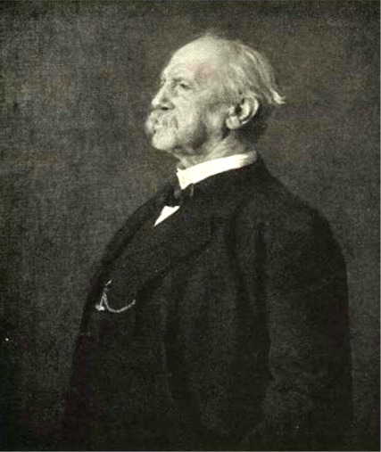 published in the Swedish periodical Ord & Bild 1913.